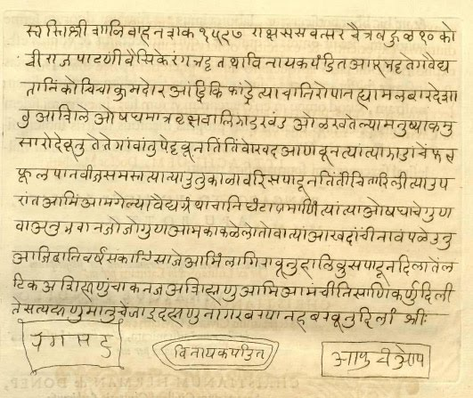 The photo had been taken from a botanical document in Dutch called Hortus Malabaricus compile 325 years ago by Hendrik van Rheede. It is not under copyright. source: Hortus Malabaricus